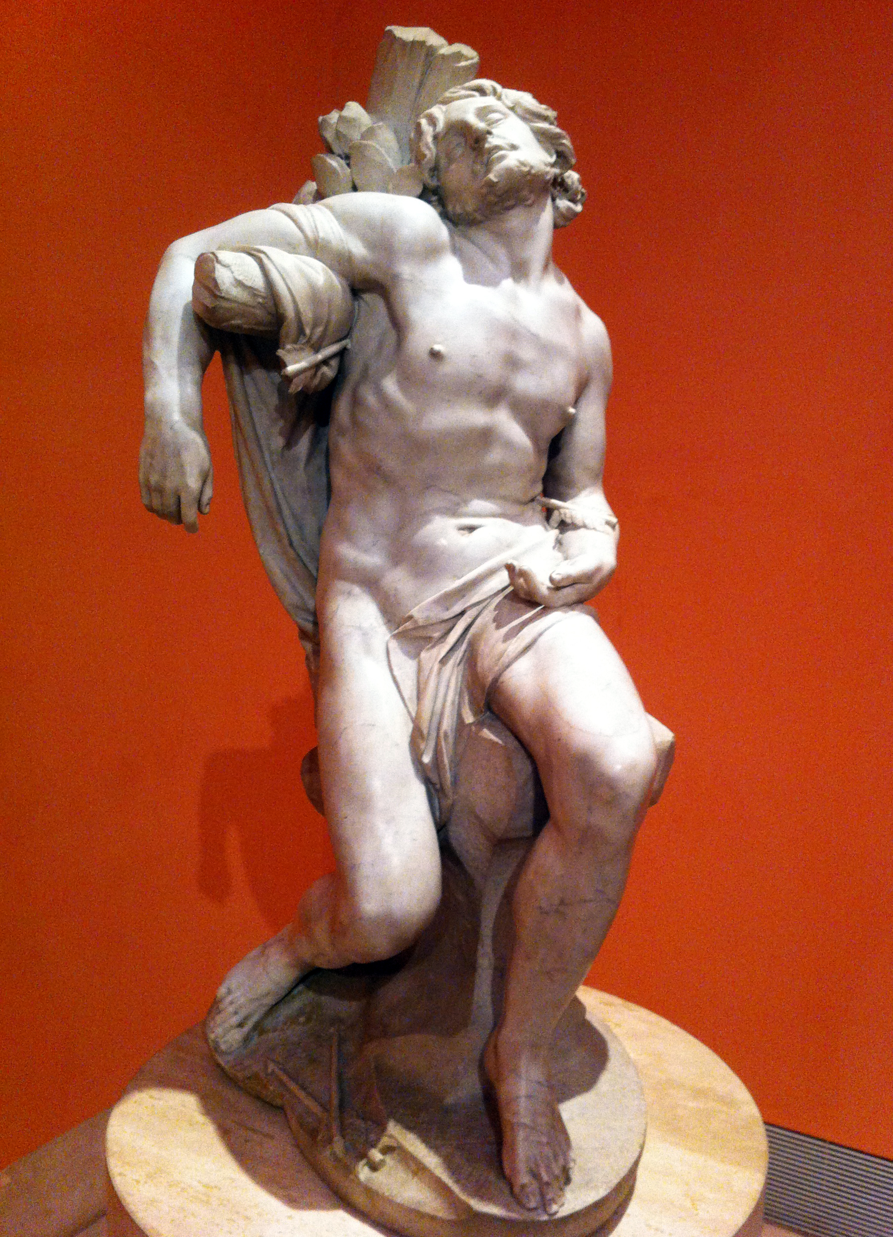 A picture of Gianlorenzo Bernini's sculpture of St Sebastian in the Museo Thyssen-Bornemisza in Madrid, Spain